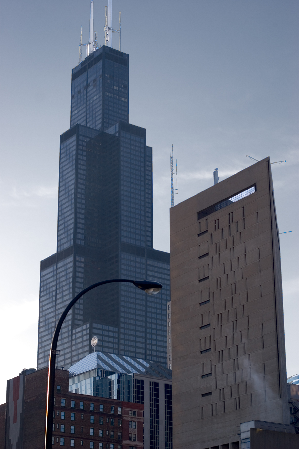 Chicago building: Sears Tower, IL, USA.